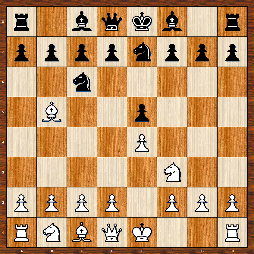 cozio defense